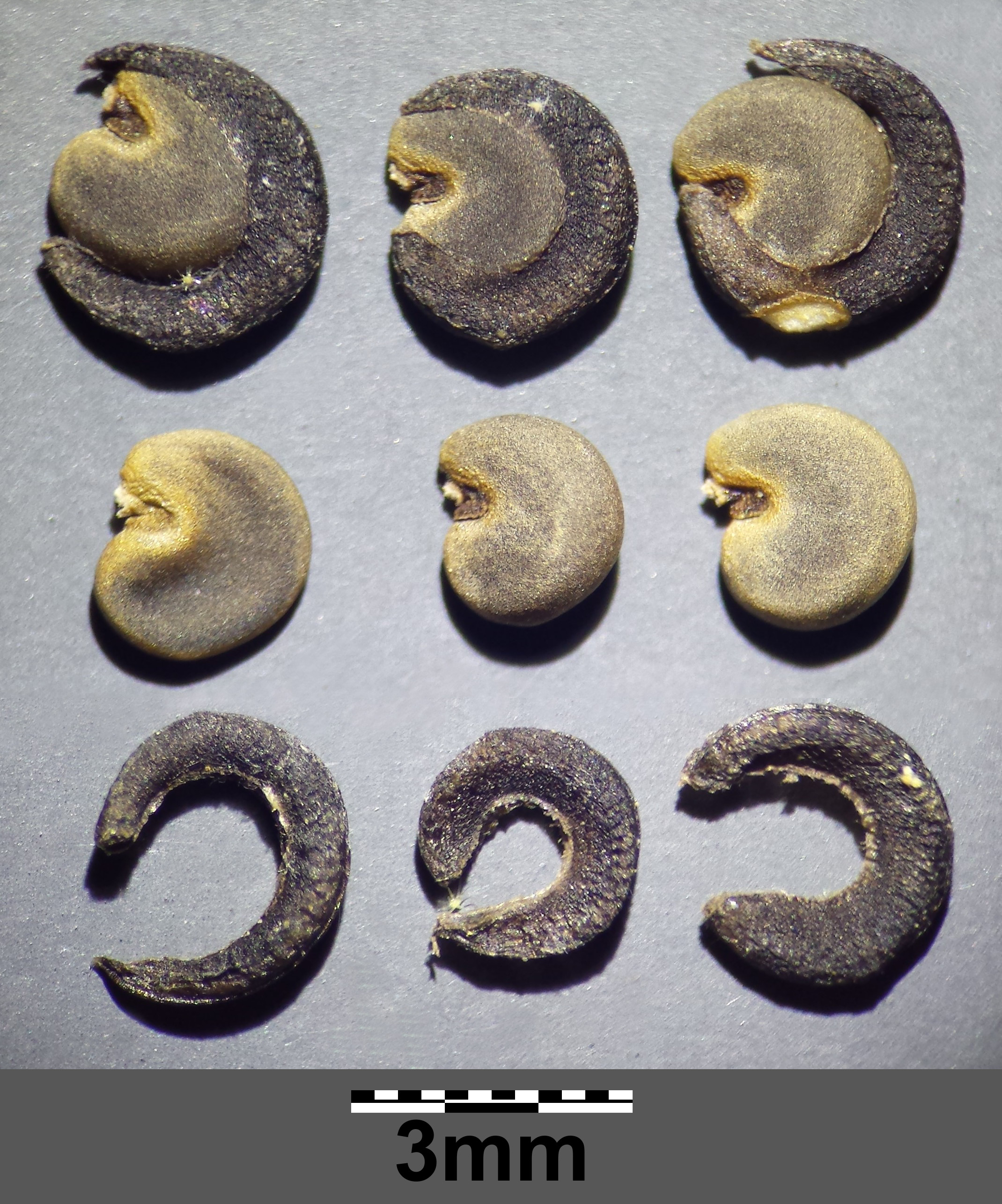 Fruitlets/seeds Taxonym: Lavatera thuringiaca ss Fischer et al. EfÖLS 2008 ISBN 978-3-85474-187-9 Location: near Alte Schanzen, Floridsdorf, Vienna - ca. 225 m a.s.l. (leg.: 2015-07-17) Habitat: fallow land